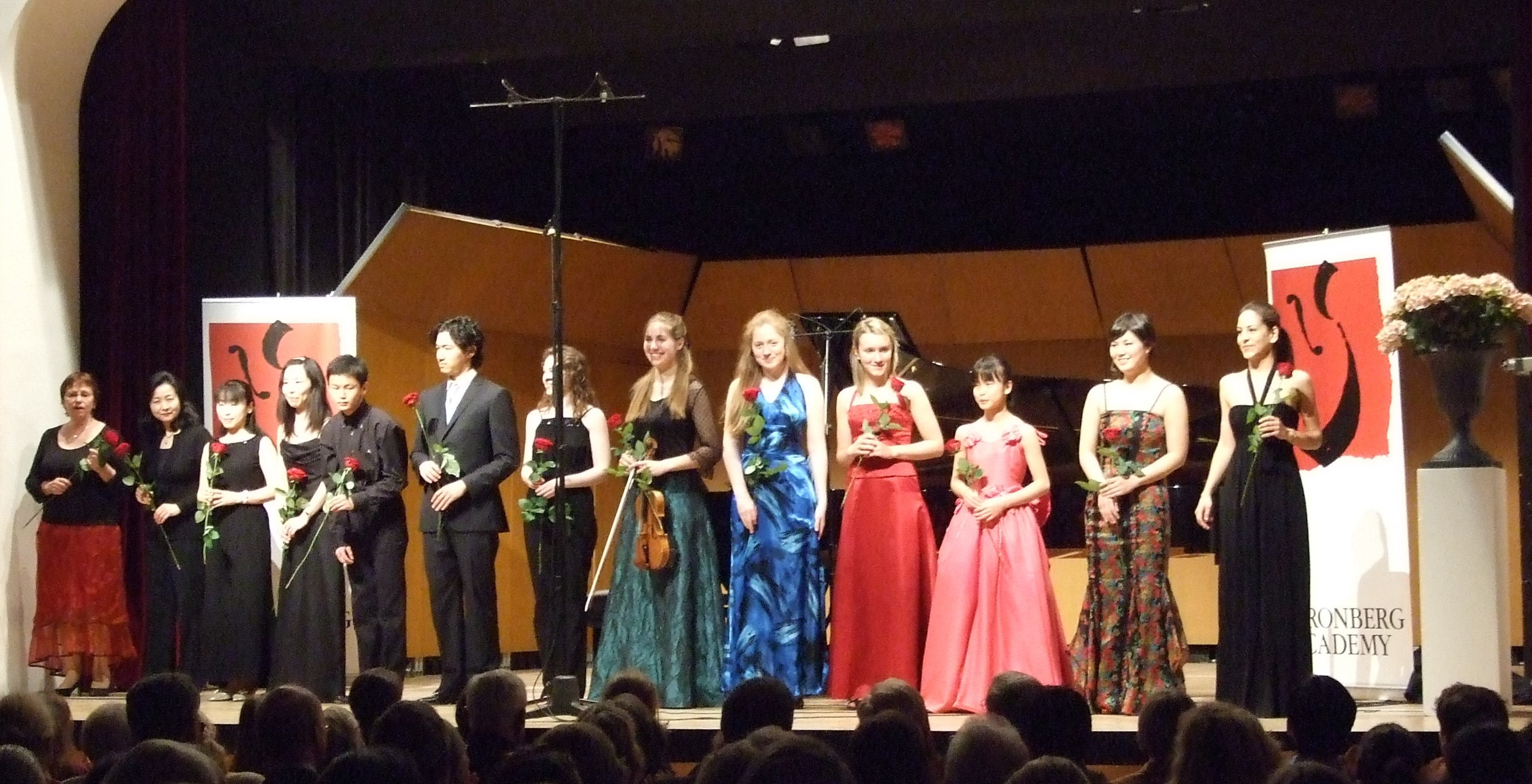 competitors of the "Final Concert by the students", "Violin Masterclasses 2009"